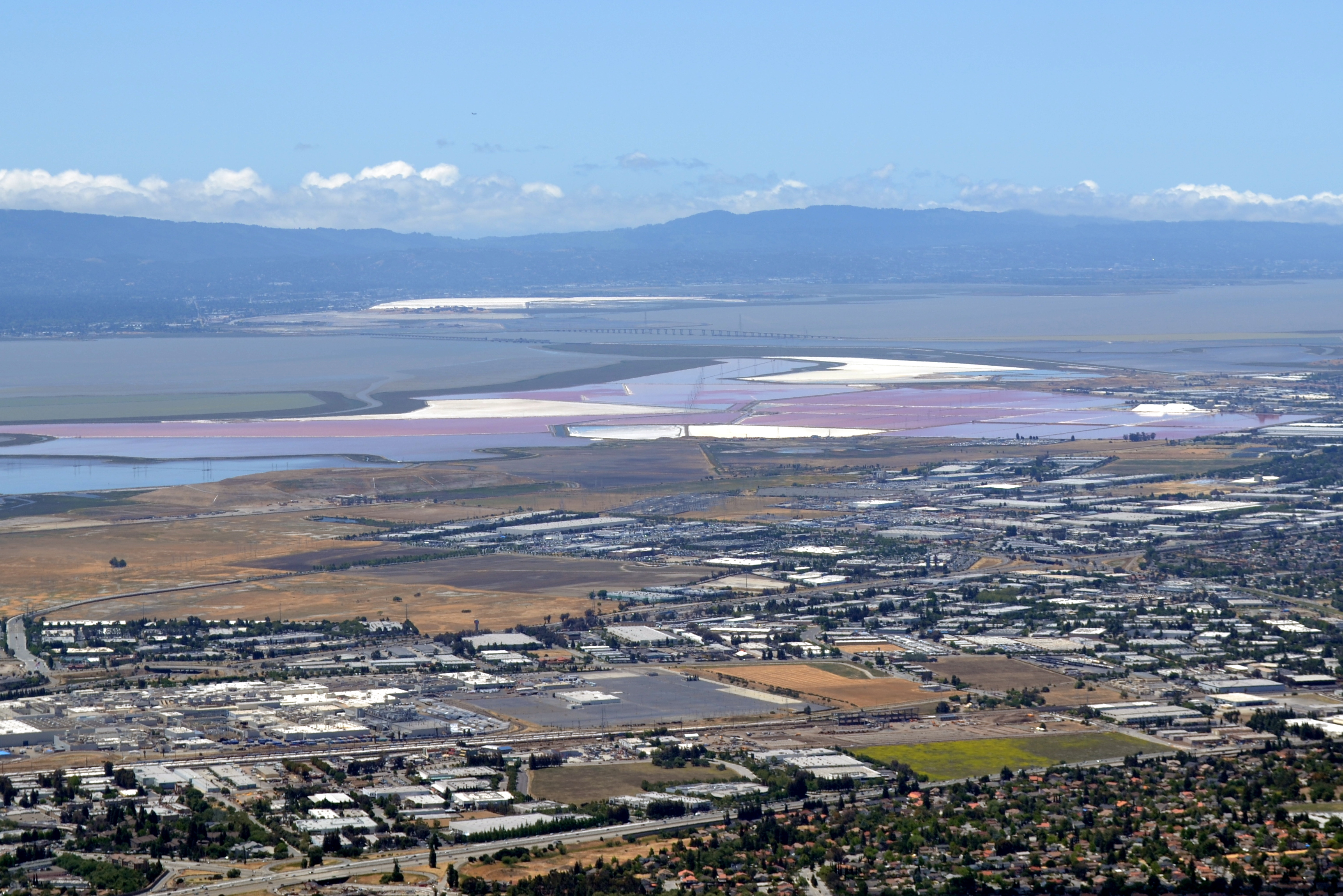 View from Mission Peak